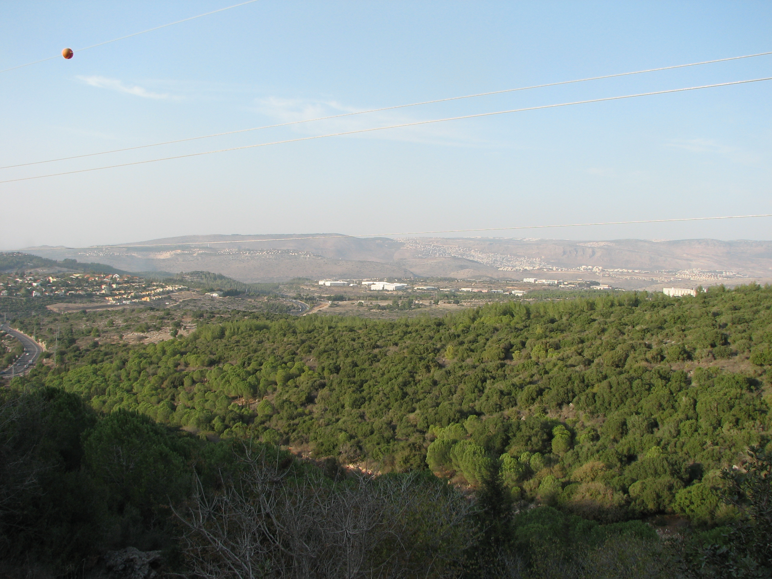 Misgav Regional Council the Galilee region in northern Israel